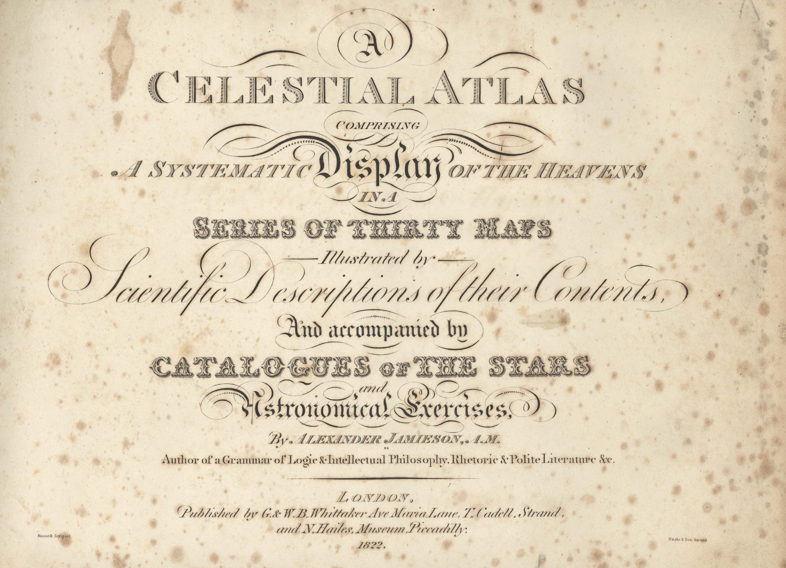 Cover of A celestial atlas: comprising a systematic display of the heavens in a series of thirty maps: illustrated by scientific description of their contents and accompanied by catalogues of the stars and astronomical exercises